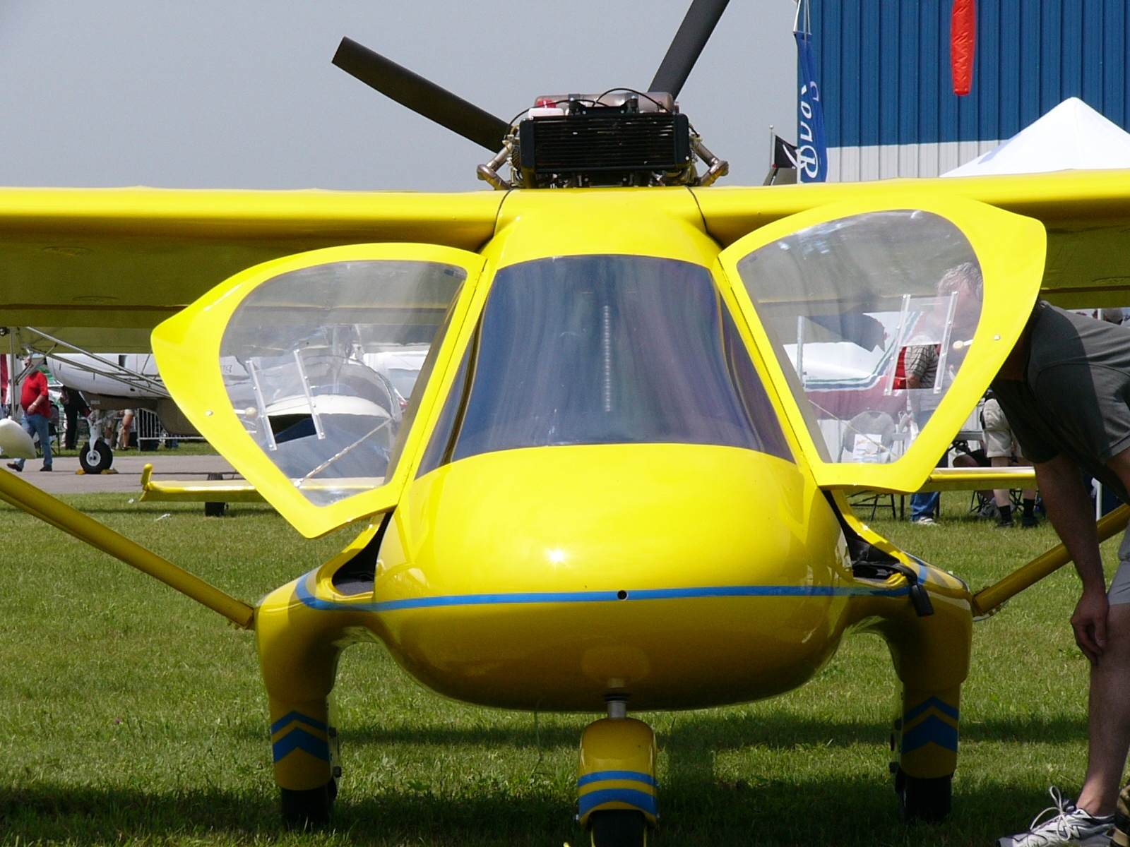 InterPlane Skyboy (C-IDBX) at the 2004 Canadian Aviation Expo, Oshawa, Ontario, Canada